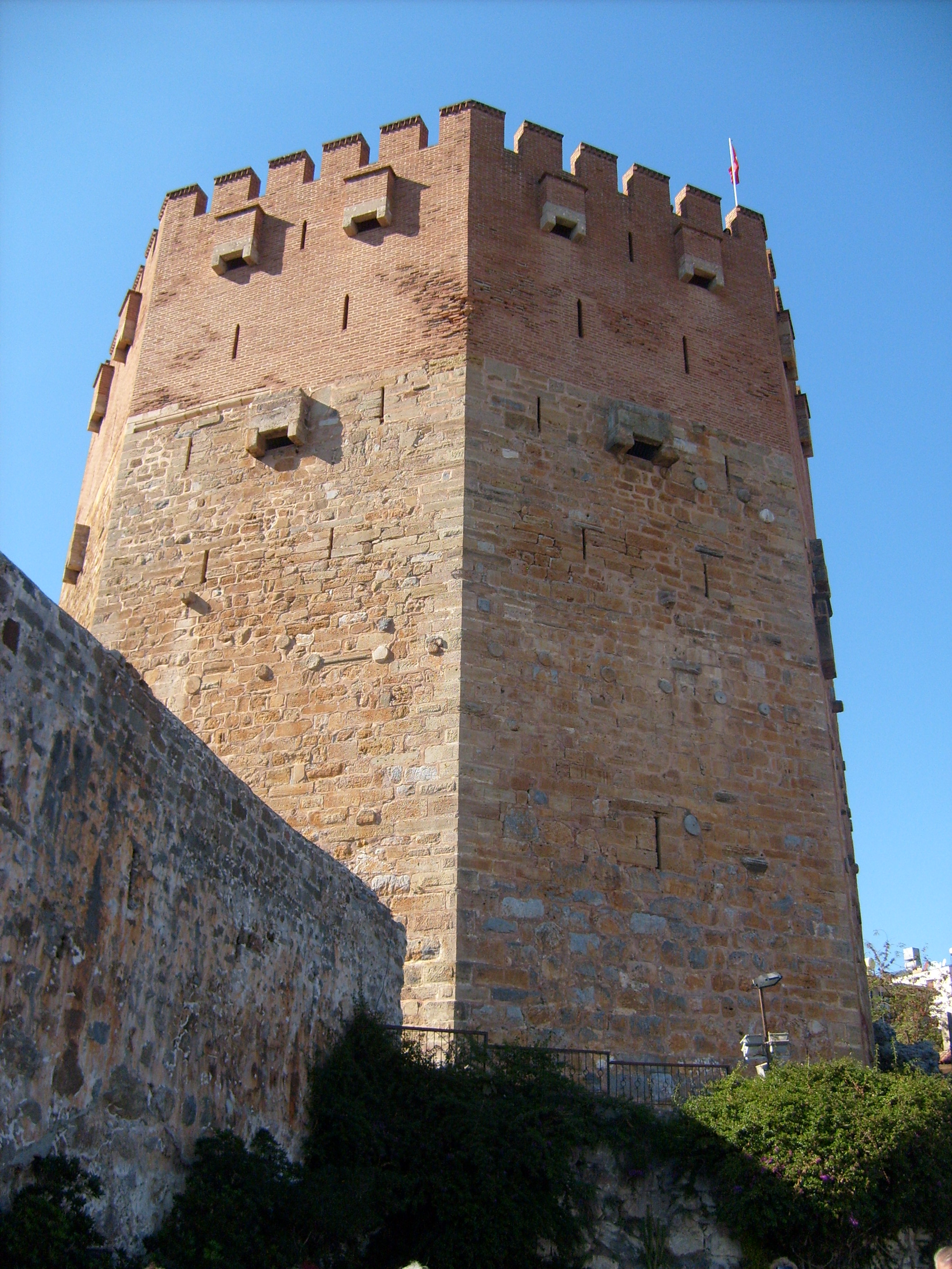 Red Tower